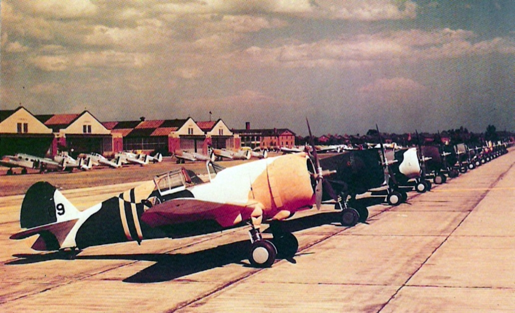 U.S. Army Air Corps Curtiss P-36C Hawk fighters of the 27th Pursuit Squadron, 1st Pursuit Group, at Wright Field, Ohio (USA), in 1939. The P-36s were camouflaged just for public relations for the U.S. National Air Races in a paint scheme that was never used by the USAAC.